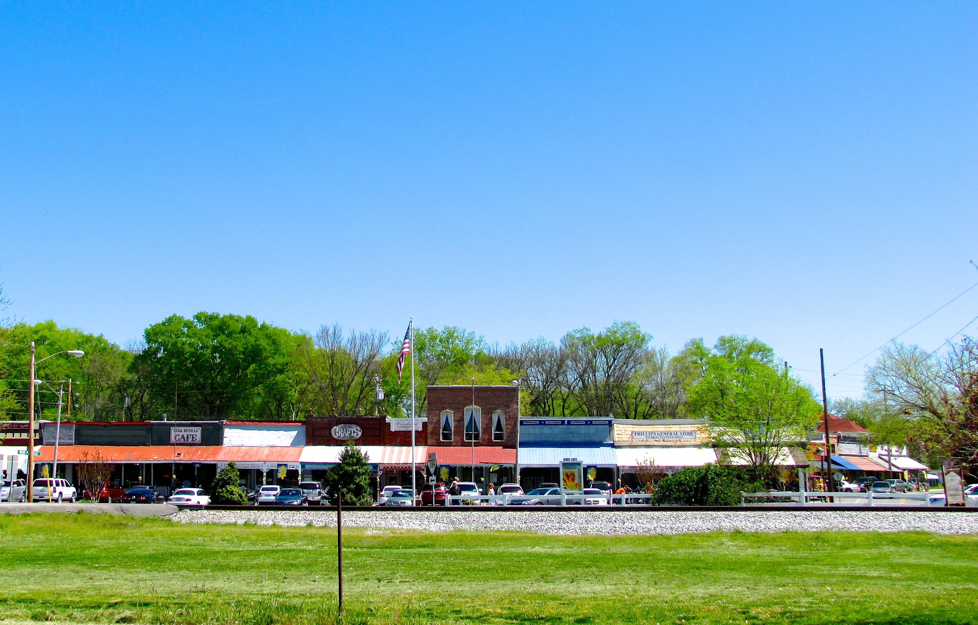 Historic district at the intersection of Main and Webb streets (State Route 82 and State Route 269) in Bell Buckle, Tennessee, United States.